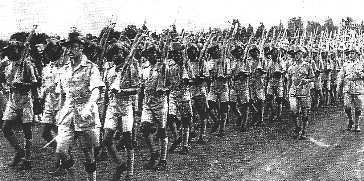 A Company of the Rhodesian African Rifles makes its first public appearance, marching through black townships in Salisbury on Armistice Day, 11 November 1941.